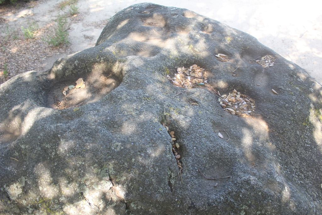 Pedra de les Olles